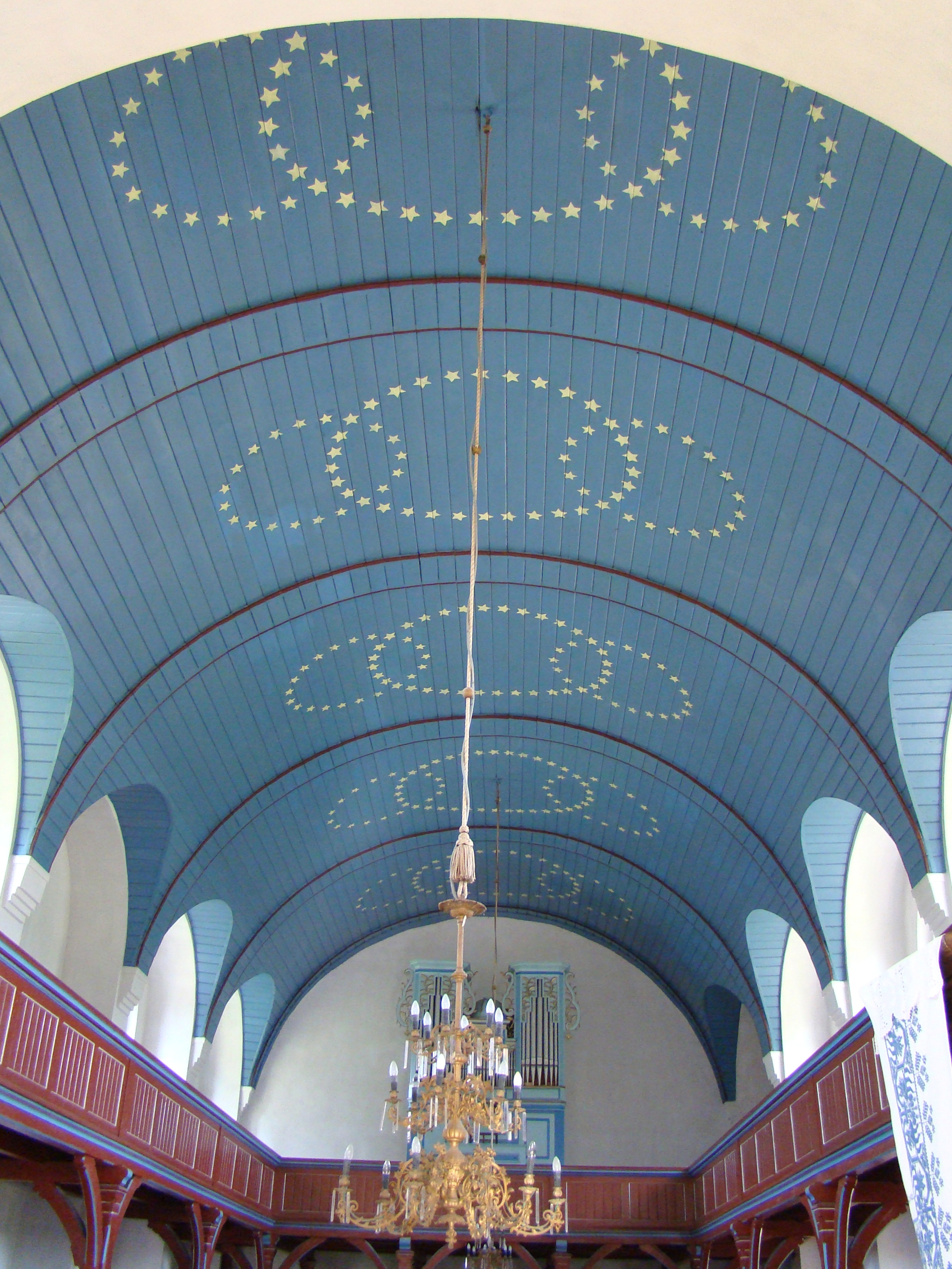 Lutheran church in Criș, Mureș county, Romania